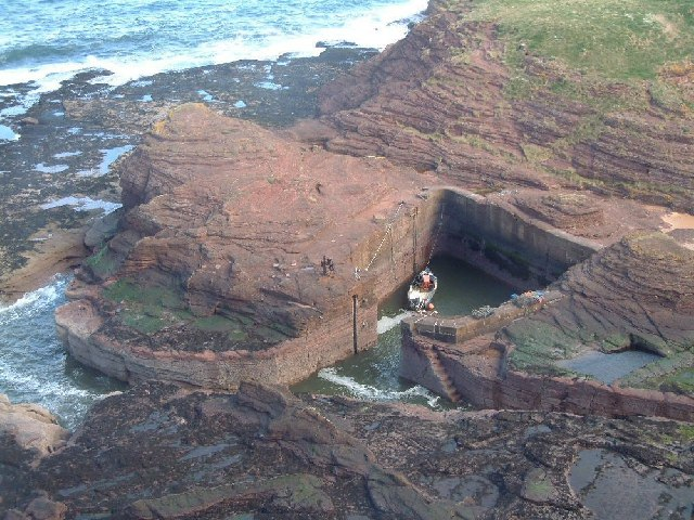 Seacliff Harbour. A view from the top of the neighbouring cliff, showing how small the harbour is.